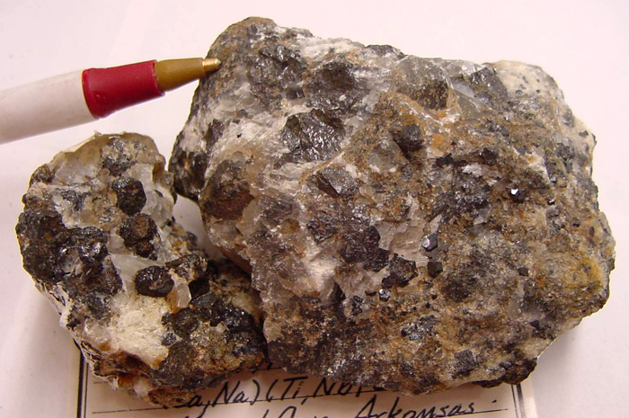 Perovskite. Pen for scale. Collected by A.E. Foote from Magnet Cove, Arkansas. Mineral collection of Bringham Young University Department of Geology, Provo, Utah. BYU index 4- 8087, (CaNa)(TiNb)O_3.